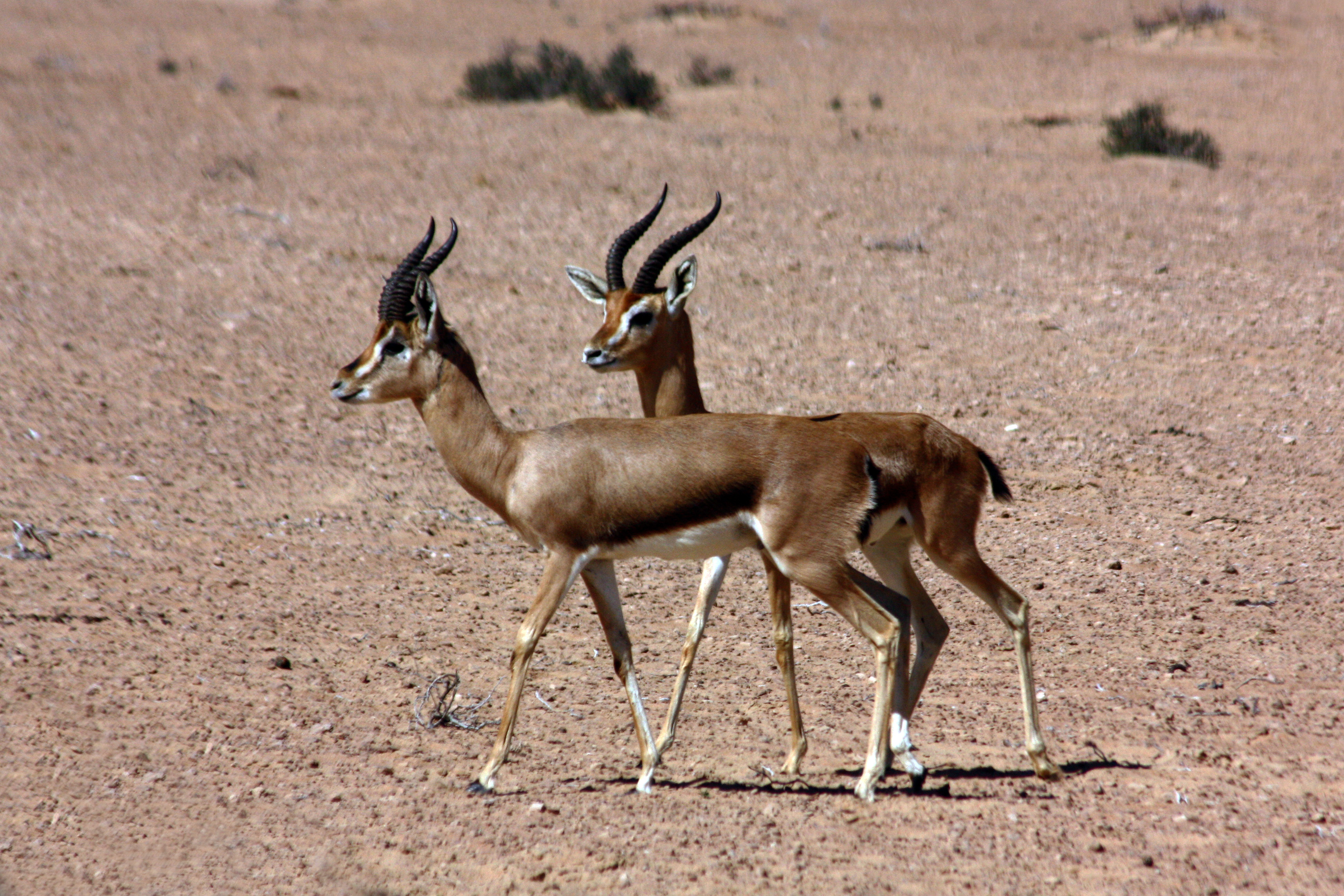 Arabian mountain gazelle (Gazella gazelle cora) in the Dubai Desert Conservation Area, UAE.